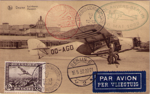 Postcard sent on the day of the first flight Antwerp-Berlin. The airplane is a Westland IV (Wessex) with Sabena registration OO-AGD (c/n WA1898). It had a capacity of 10 passengers.